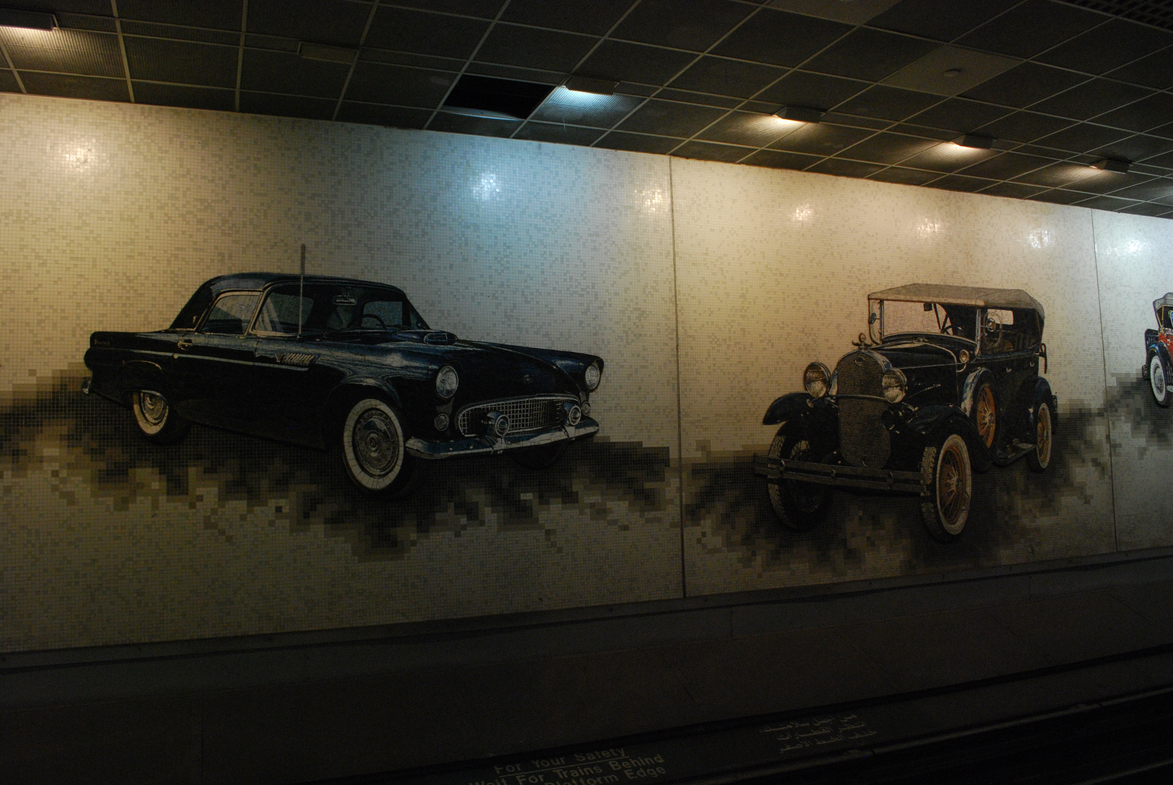 The mosaic in the Cobo Center station of the People Mover in Detroit, Michigan.